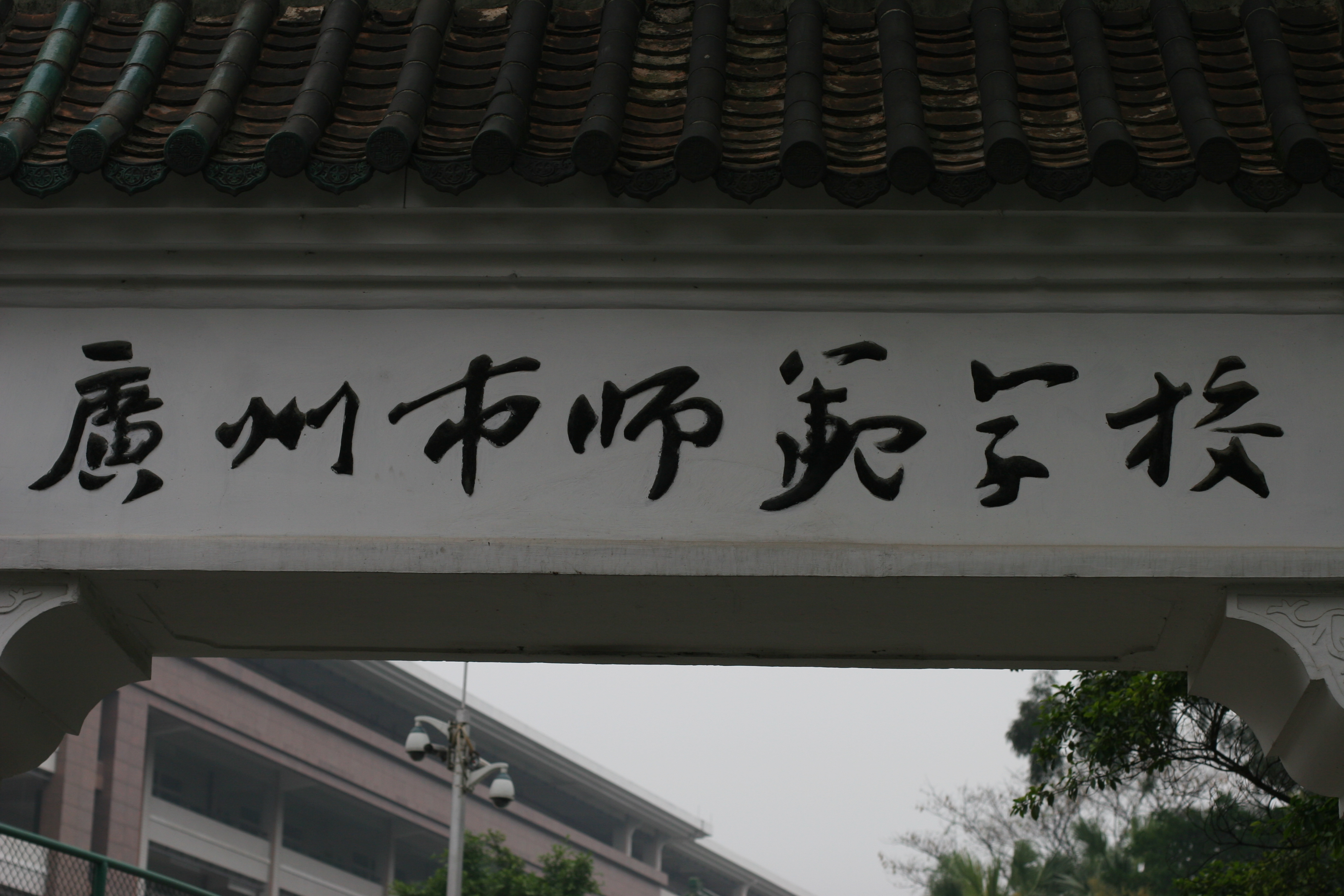 The Youjie Gate of Guangzhou Xiehe High School